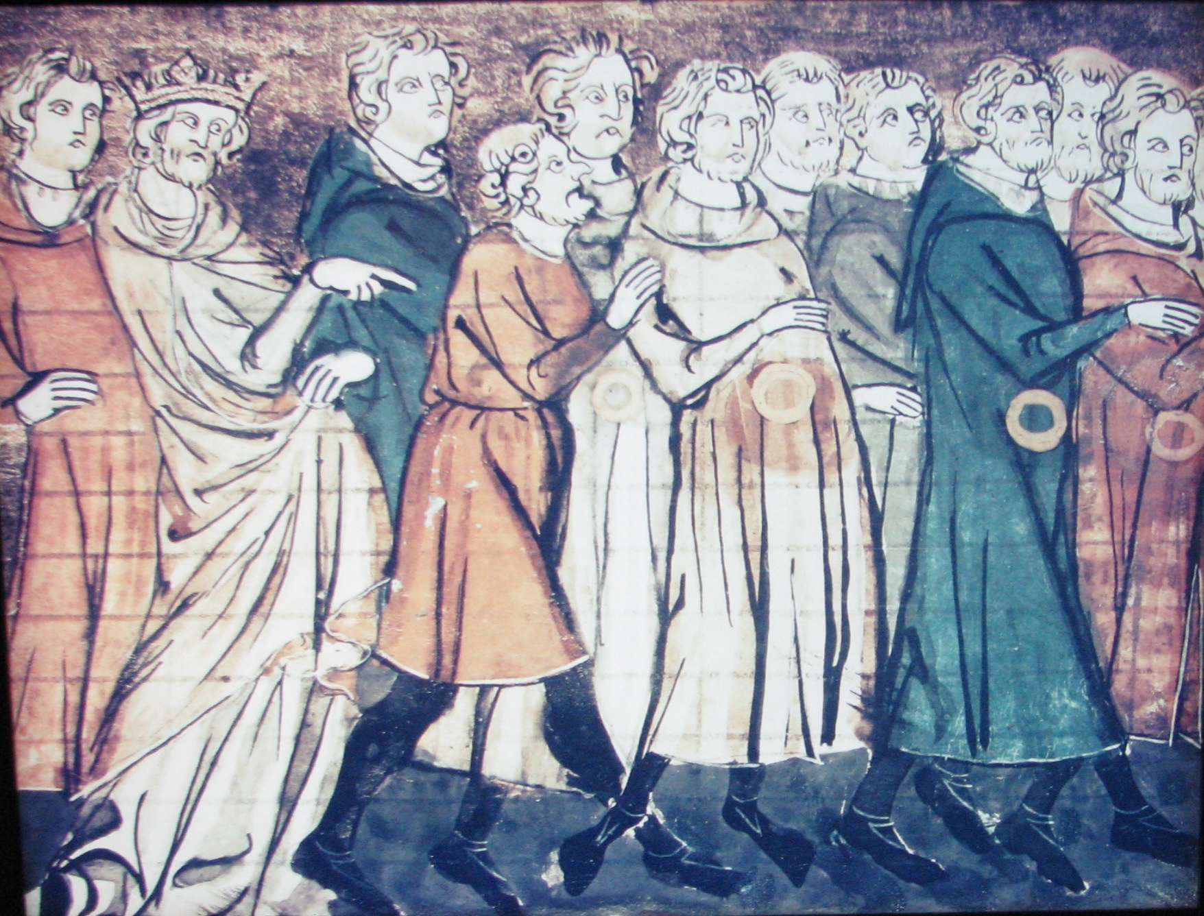 A miniature from Grandes Chroniques de France depicting the expulsion of Jews from France in 1182. This is a photograph of an exhibit at the Diaspora Museum, Tel Aviv - Beit Hatefutsot. (Photo taken by User:Sodabottle